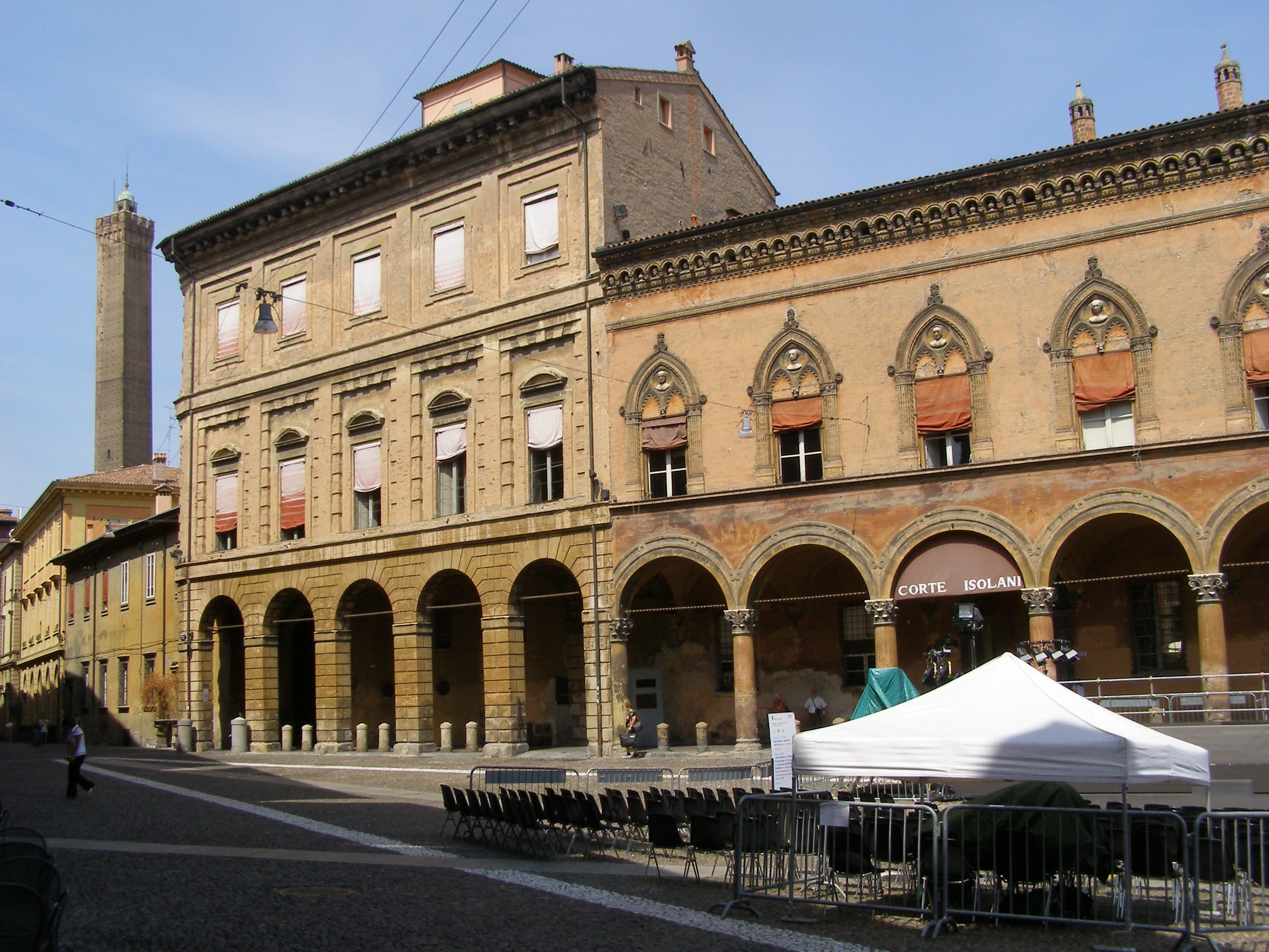 Bologna - palaces in Piazza Santo Stefano